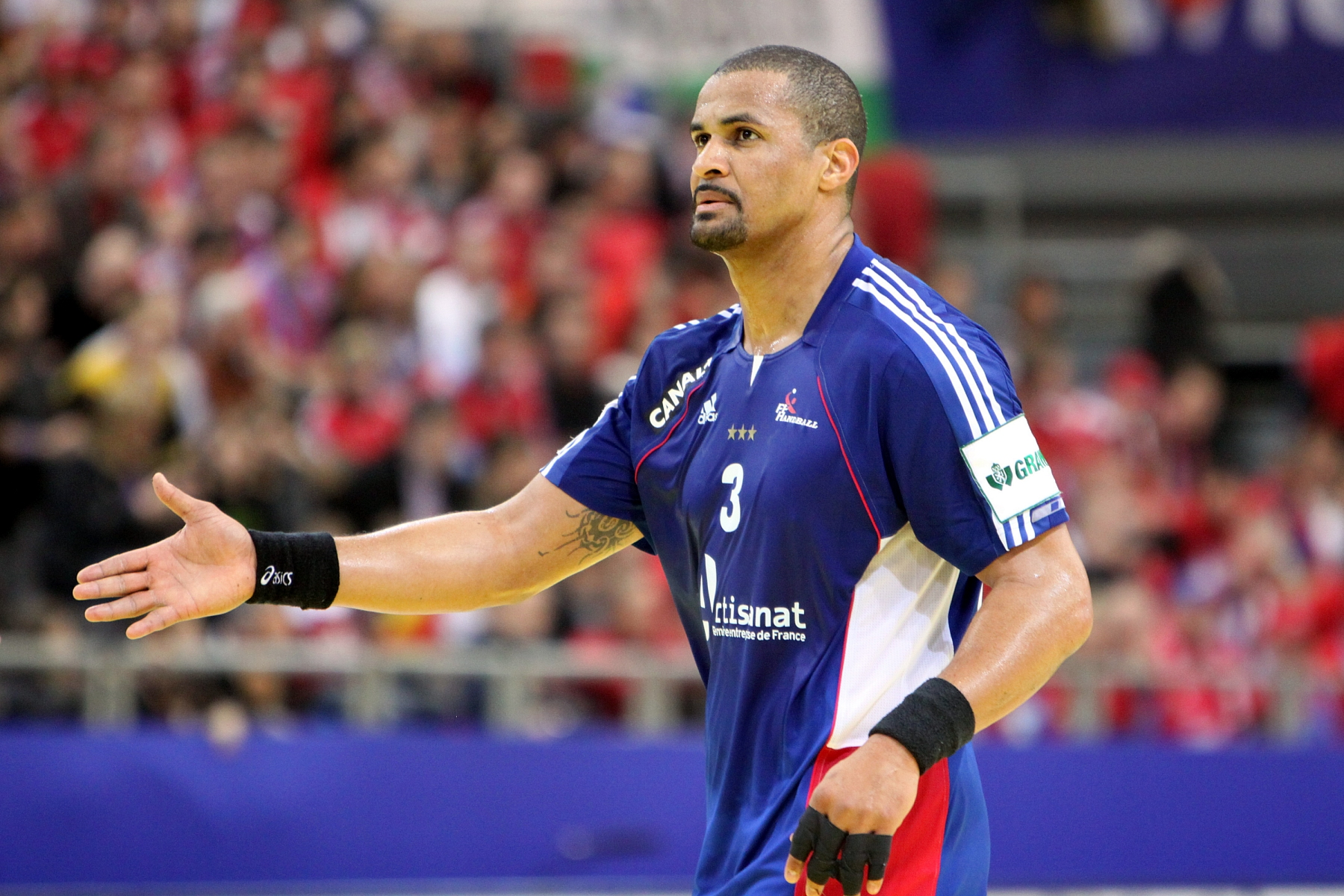 Didier Dinart (BM Ciudad Real), France national handball team